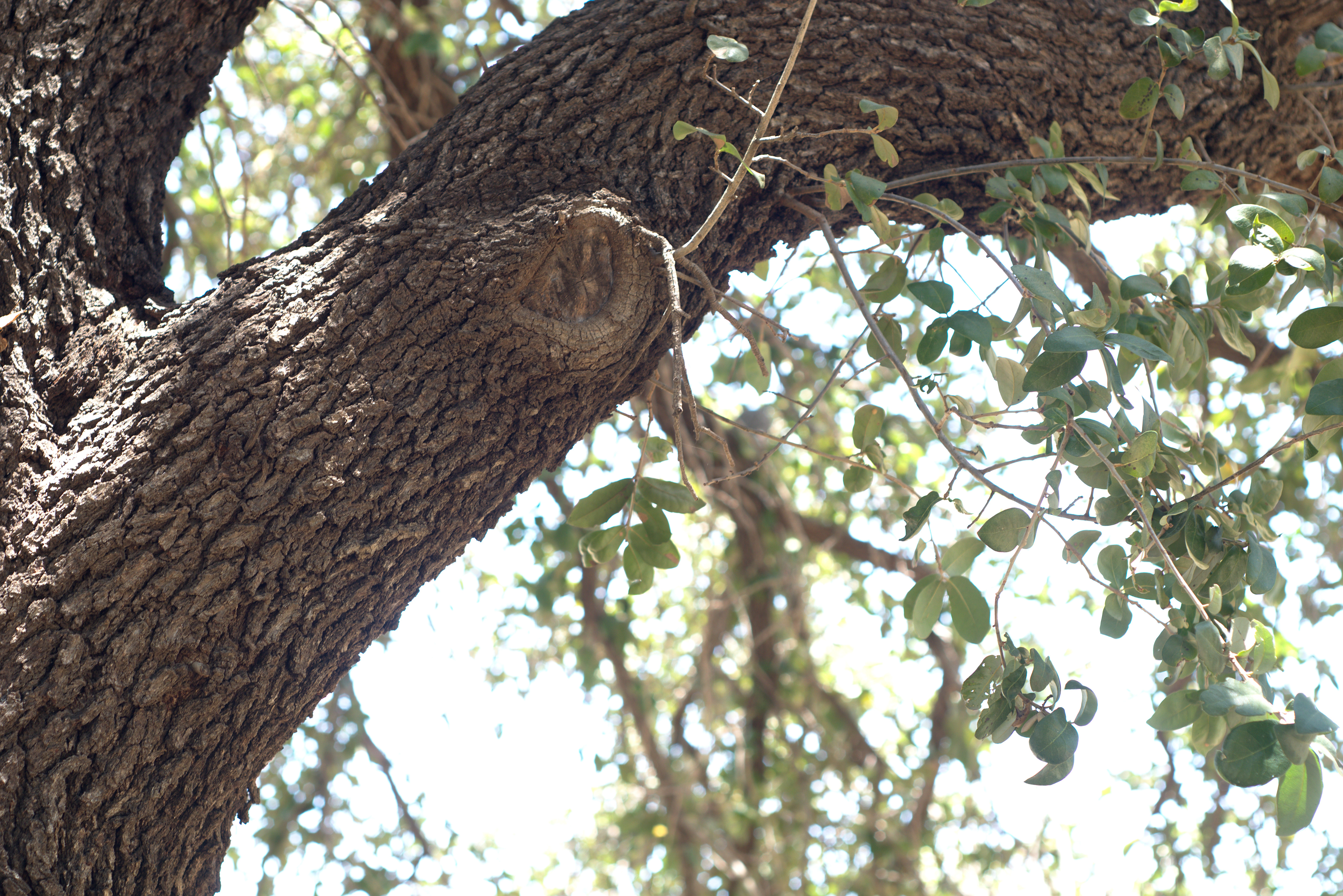 Quercus virginiana var. fusiformis, age 30 years.